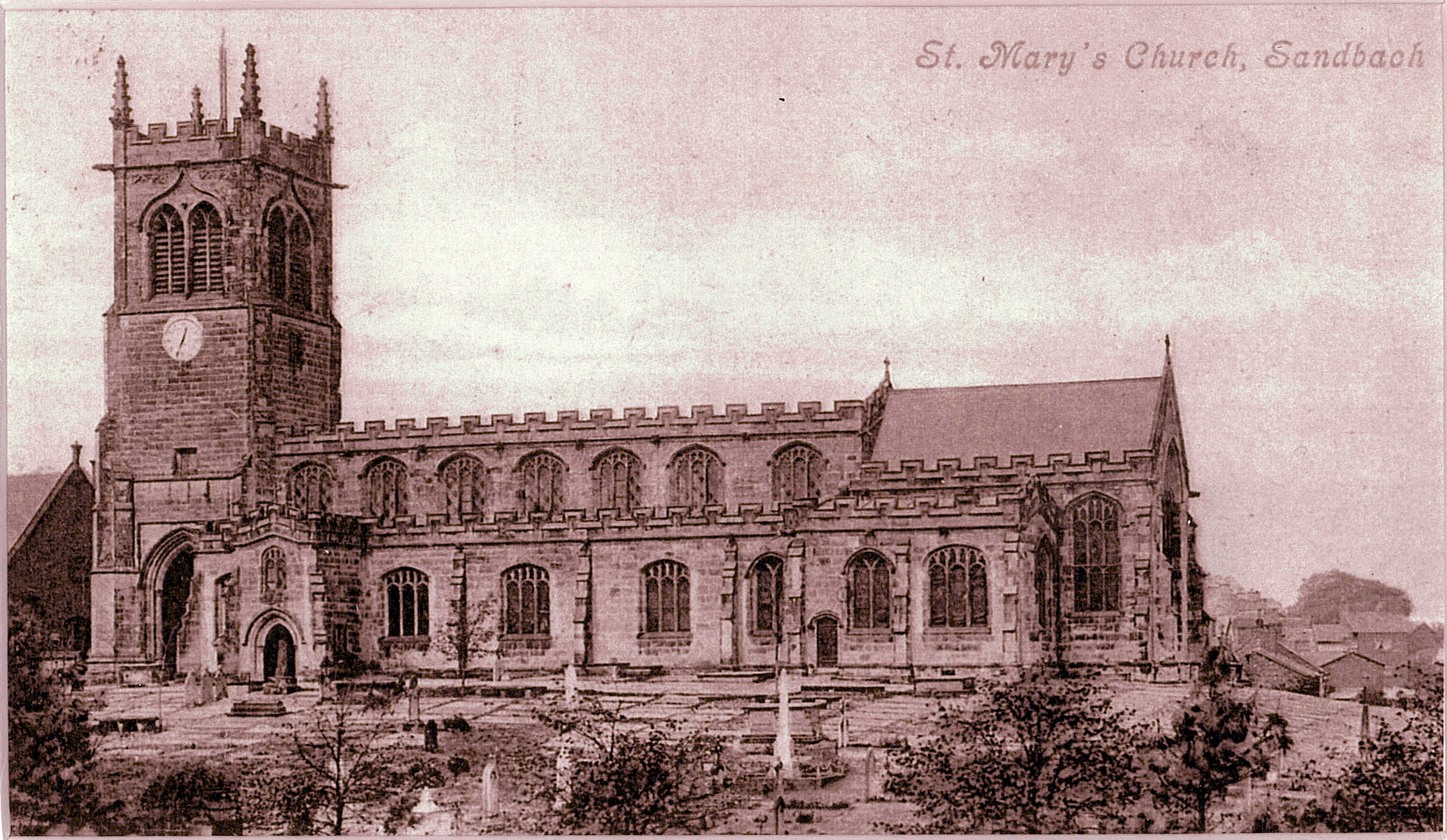 St Mary's Church, Sandbach, from a postcard circa 1900. Source: St Mary's Church website